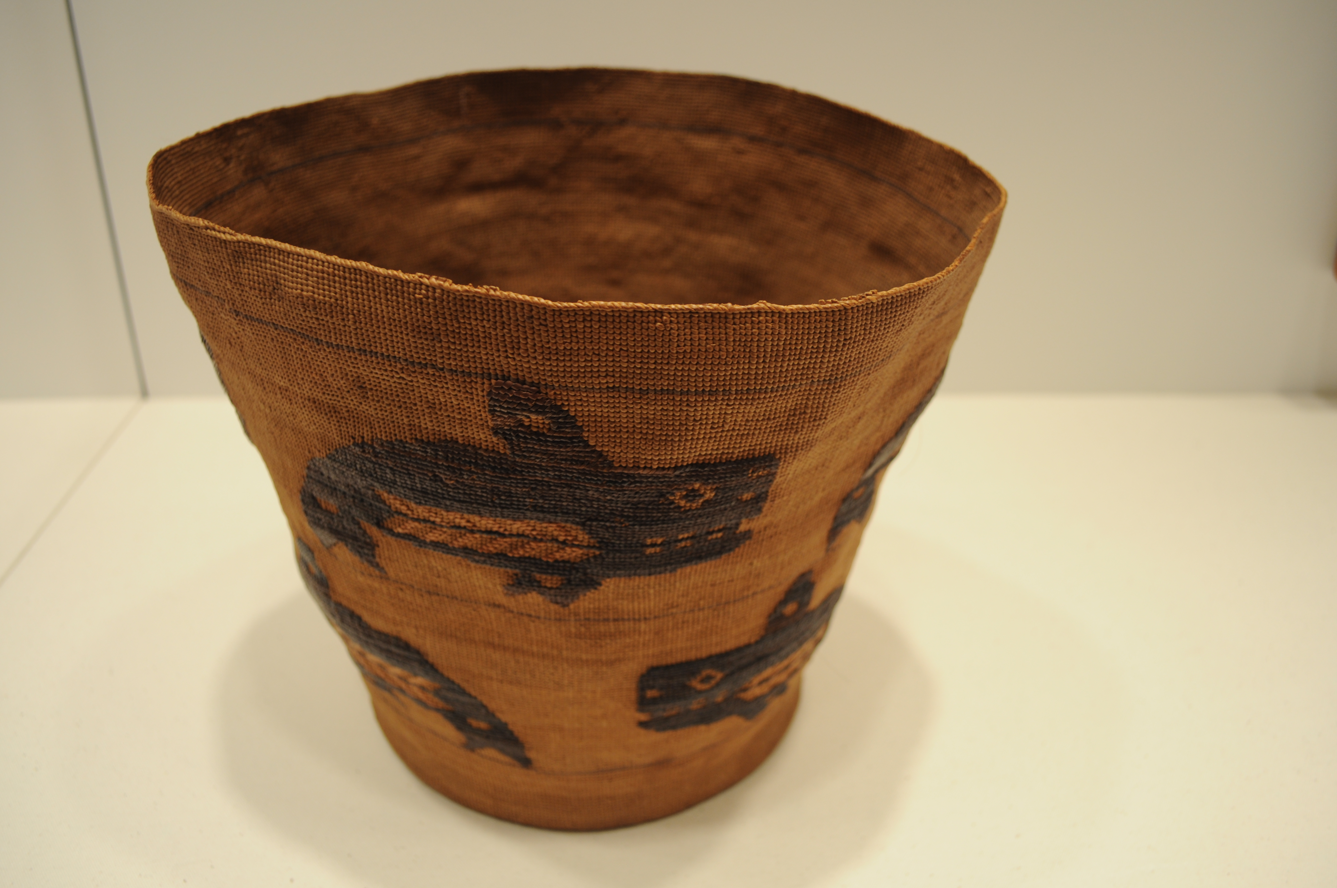 Tlingit basket with orca motif